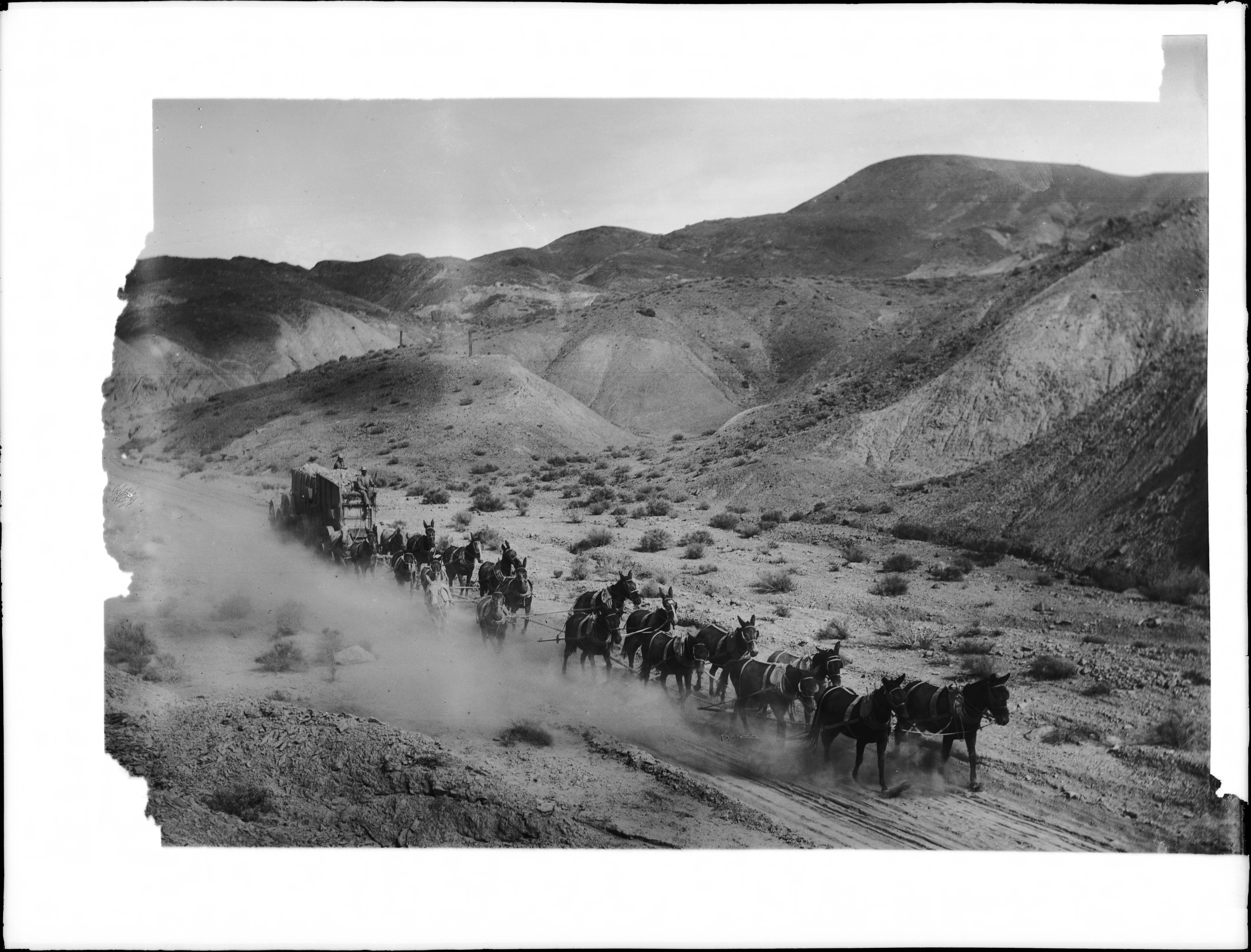 Twenty-mule team hauling borax out of Death Valley to the railroad, ca.1900 Photograph of a twenty-mule team hauling borax in a wagon out of Death Valley to the railroad, ca.1900. The team, which is stirring up considerable dust, is moving down a dirt path towards the right along barren rocky hills. Call number: CHS-1618 Filename: CHS-1618 Coverage date: circa 1900 Part of collection: California Historical Society Collection, 1860-1960 Format: glass plate negatives Type: images Part of subcollection: Title Insurance and Trust, and C.C. Pierce Photography Collection, 1860-1960 Repository name: USC Libraries Special Collections Accession number: 1618 Microfiche number: 1-104-8 Archival file: chs_Volume92/CHS-1618.tiff Repository address: Doheny Memorial Library, Los Angeles, CA 90089-0189 Geographic subject (country): USA Format (aacr2): 1 photograph : glass photonegative, b&w ; 17 x 22 cm. Rights: Digitally reproduced by the USC Digital Library; From the California Historical Society Collection at the University of Southern California Subject (adlf): deserts Project: USC Repository Contributing entity: California Historical Society Date created: circa 1900 Publisher (of the digital version): University of Southern California. Libraries Format (aat): photographs Geographic subject (state): California Legacy record ID: chs-m15123 Access conditions: Send requests to address or e-mail given. Phone (213) 821-2366; fax (213) 740-2343. Geographic subject: deserts: Death Valley Subject (lcsh): Salt industry and trade; Borax mines and mining Subject: Industry -- Borax (salt); Transportation; Borax and Salt Industry